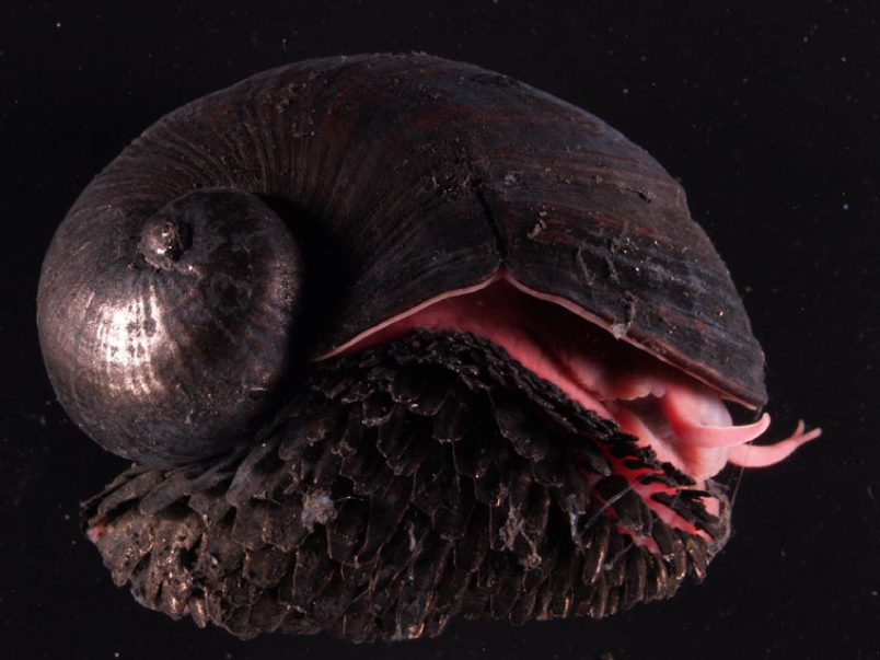 Photo of right side view of Chrysomallon squamiferum from the Kairei vent field.